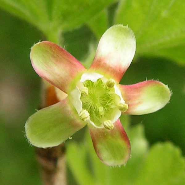 The flower of cultivated Ribes uva-crispa. Moscow region, Russia.